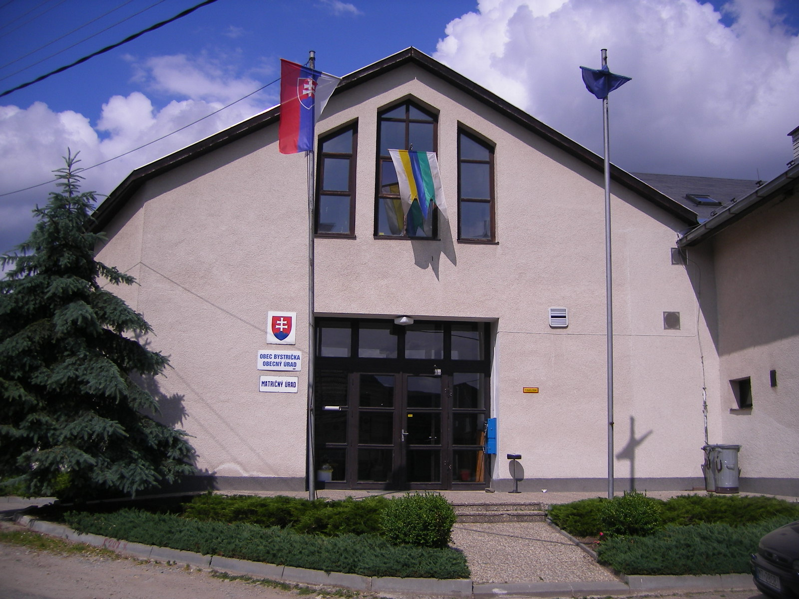 Bystrička - town hall